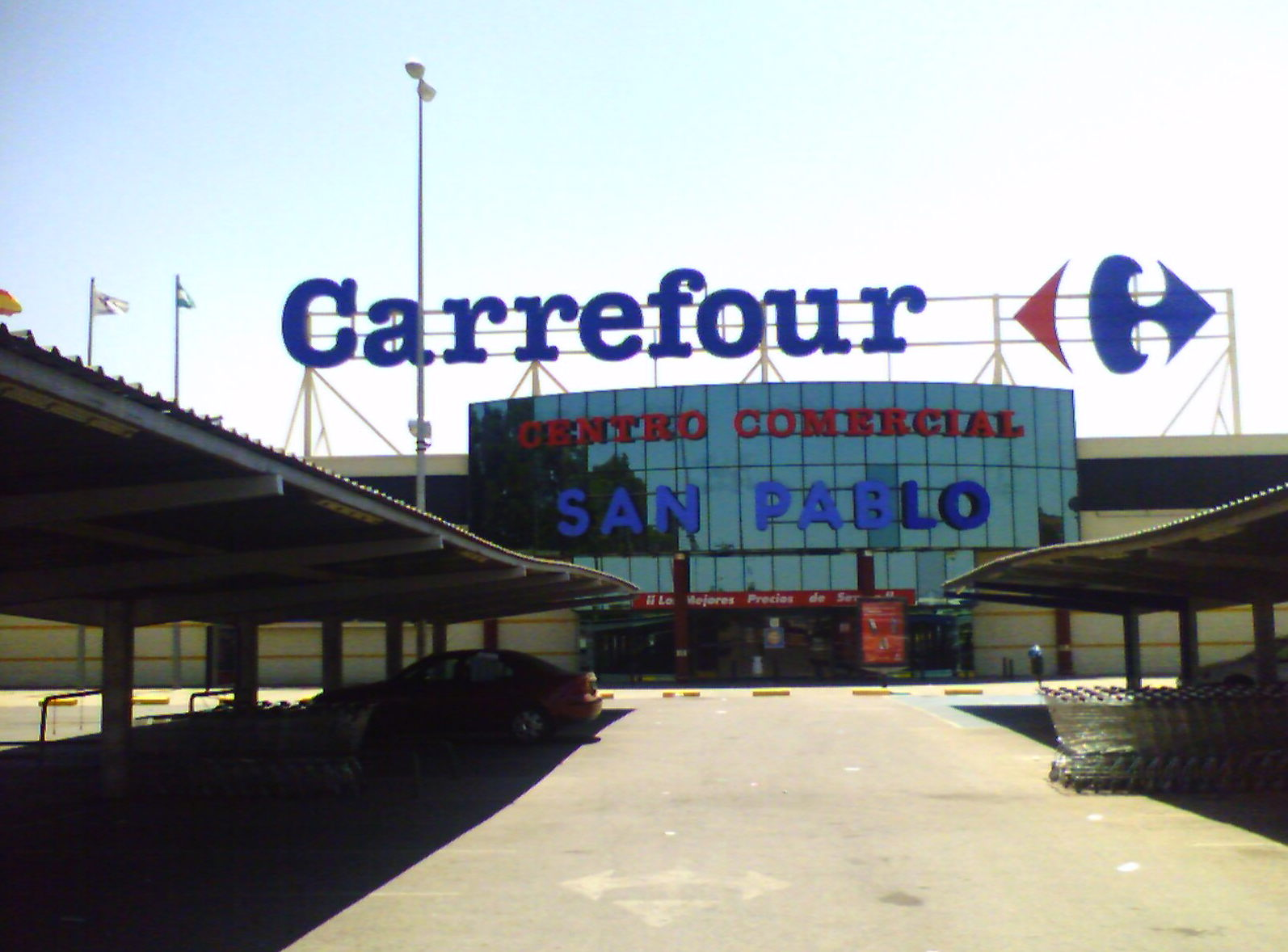 Carrefour San Pablo Hypermarket, Seville. Photo by E Asterion u talking to me?